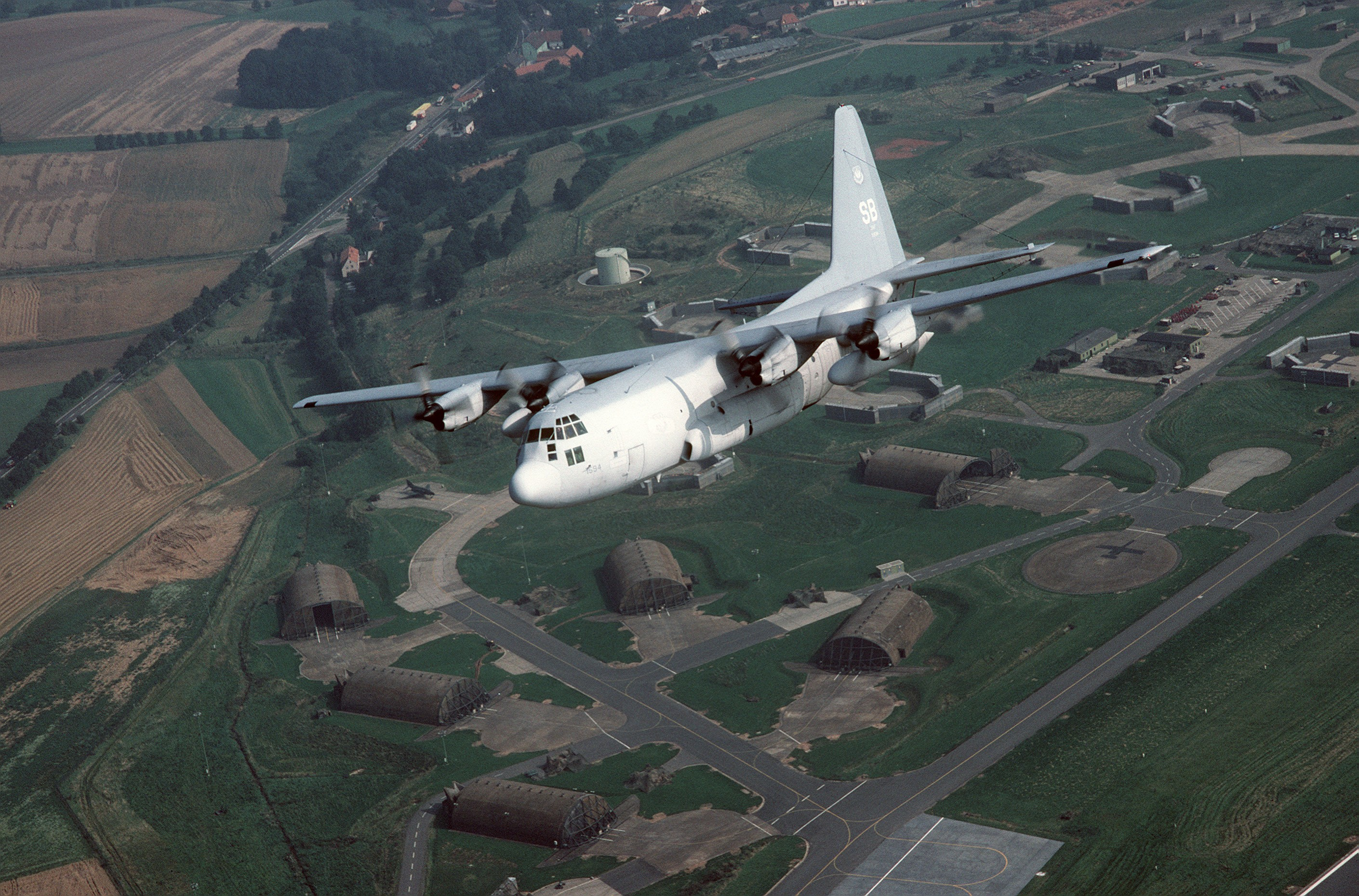 An air-to-air left side view of a 43rd Electronic Combat Squadron EC-130H Hercules aircraft banking to the right after reaching the end of the Sembach Air Base flight line during a low approach over the runway. The EC-130H "Compass Call" aircraft is based at Sembach Air Base. Its mission is to provide electronic countermeasures (ECM) to reduce the enemy's capability to wage war.